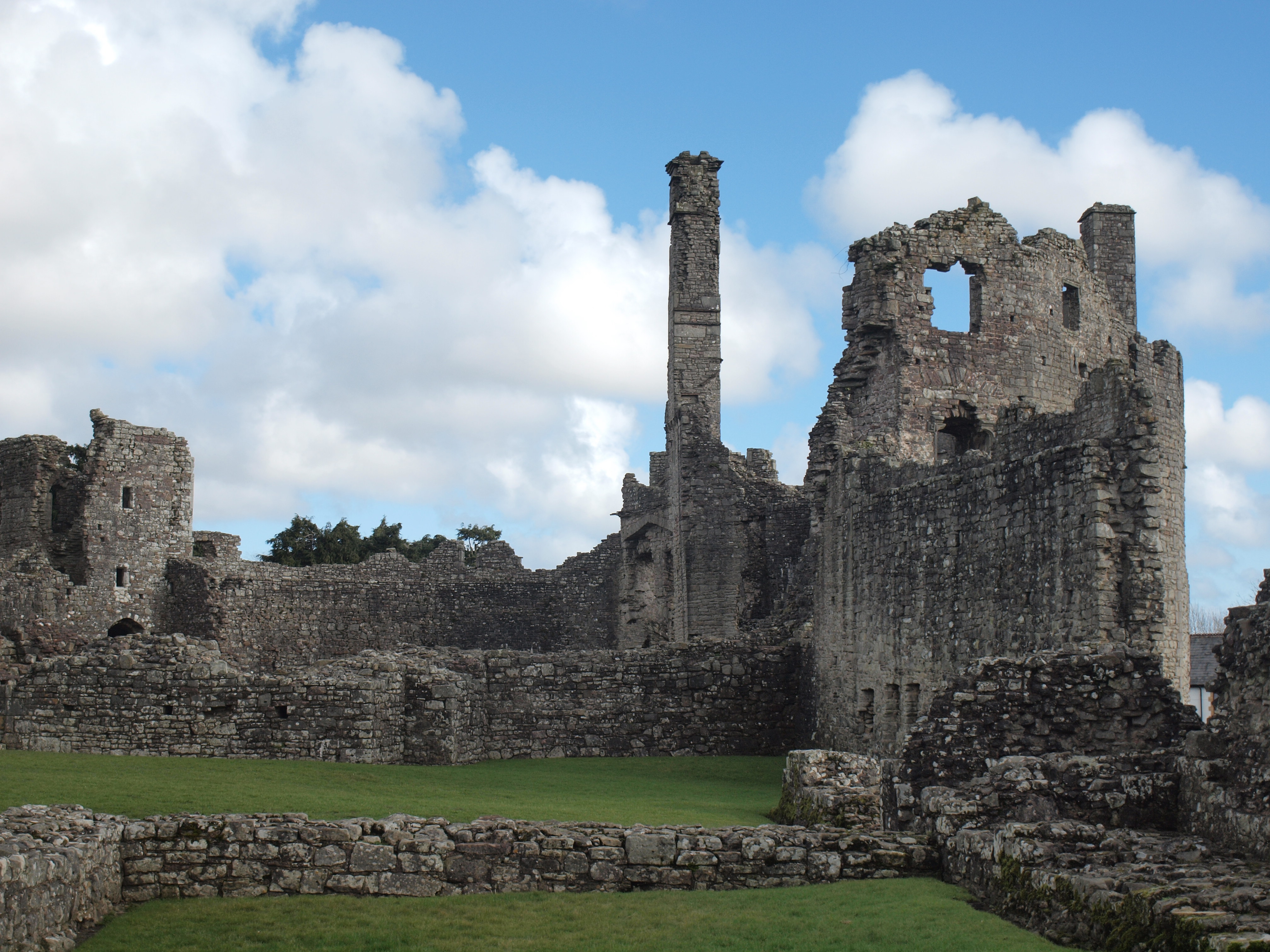 Coity Castle